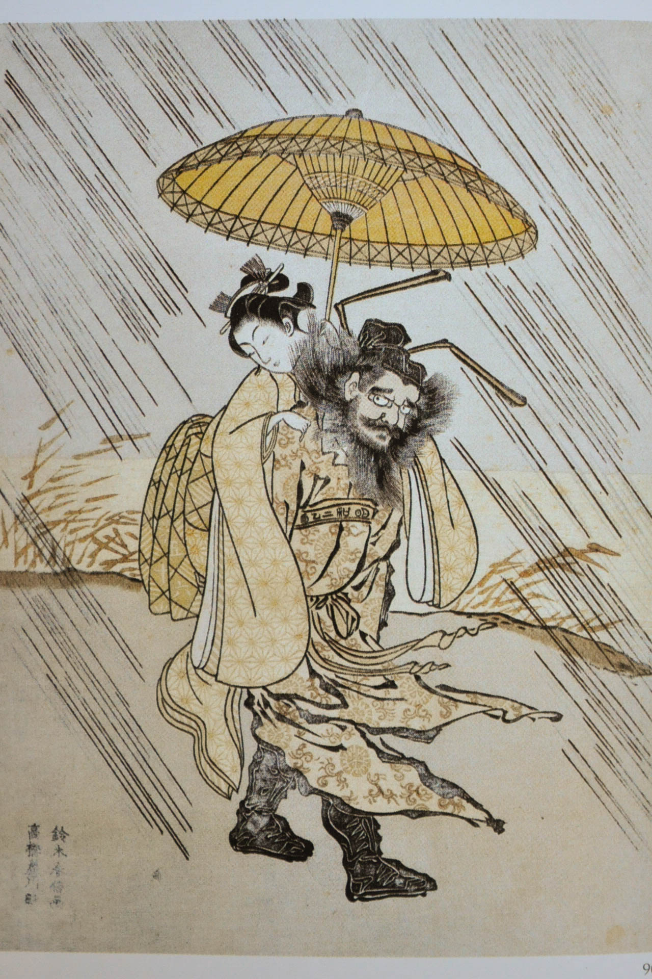 Suzuki Harunobu : egoyomi (calendar print) showing Shôki, the demon killer, carrying a bijin. The "long months" show on the obi of the girl.